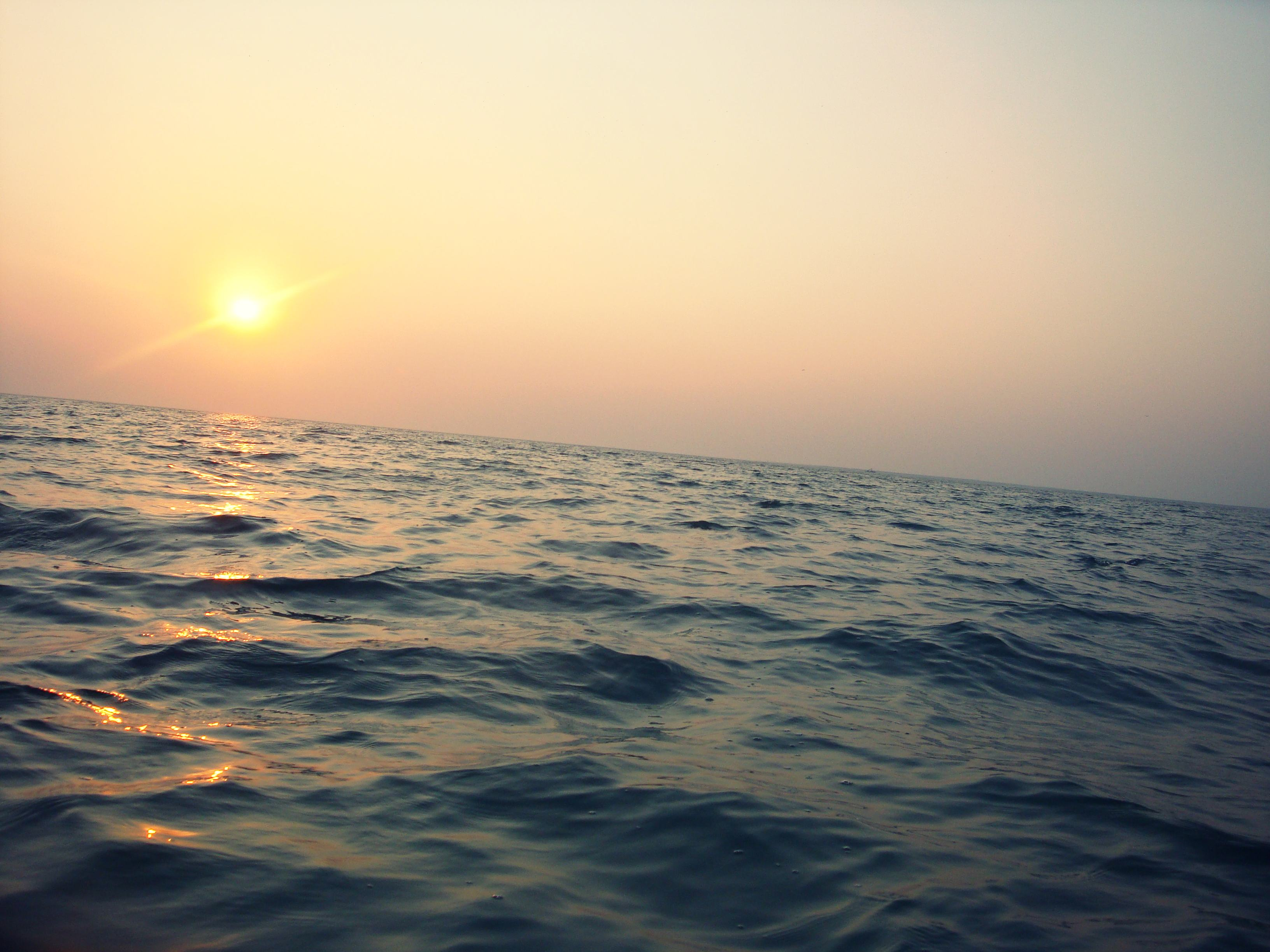 Caspian sea